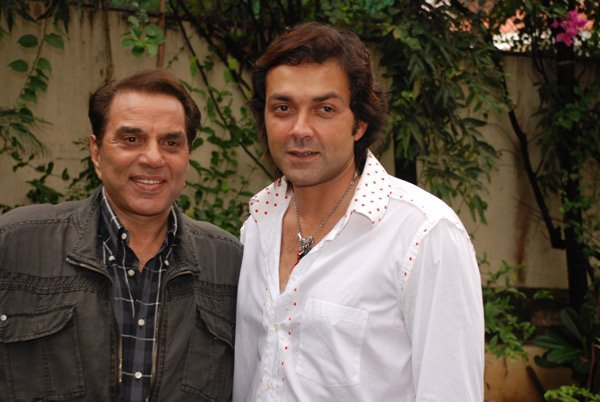 Dharmendra and Bobby Deol celebrate Father's Day at their residence